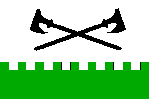 Municipal flag of Broumov village, Tachov District, Czech Republic.